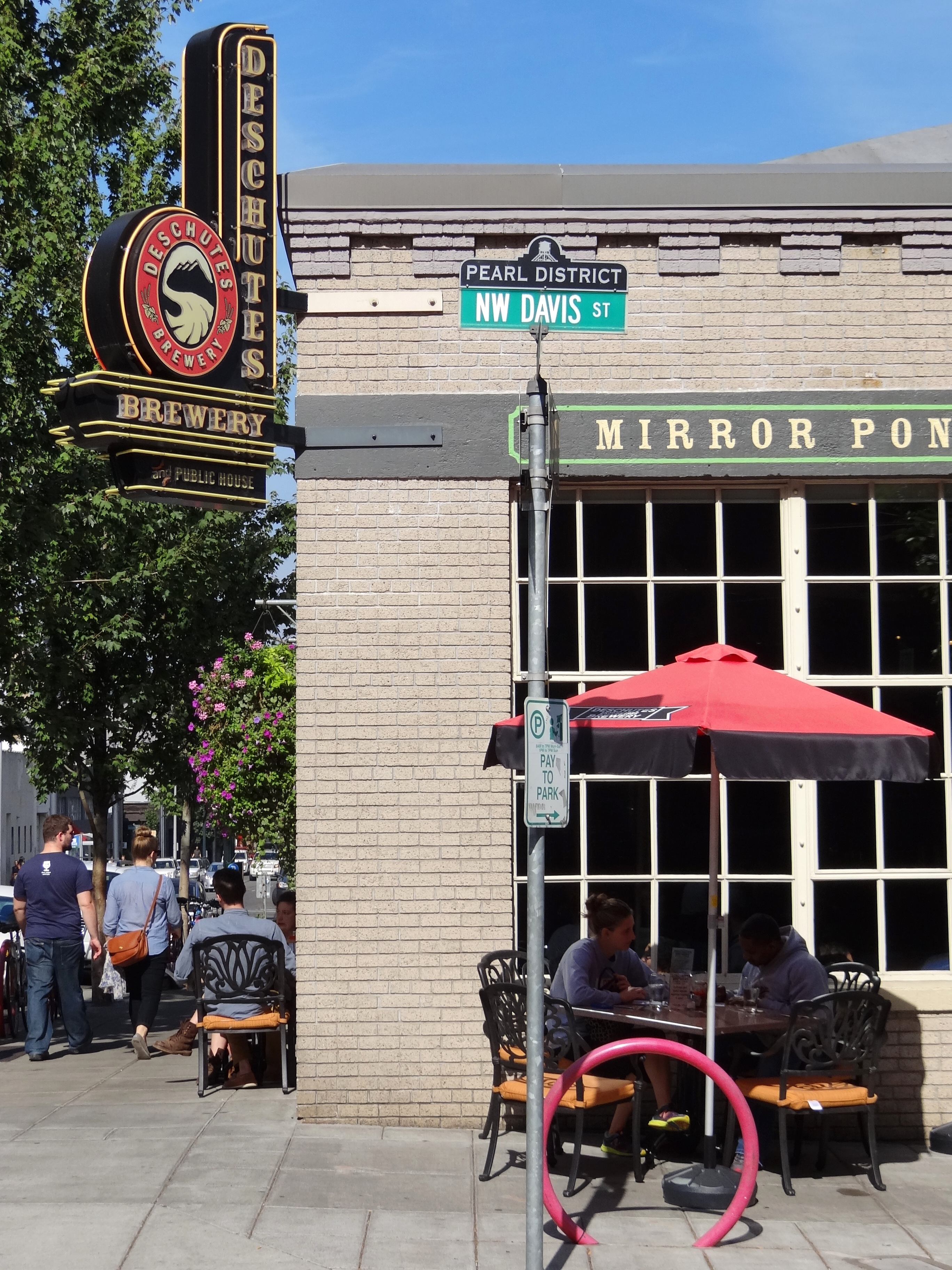 Outside the Deschutes Brewery on NW Davis St. in the Pearl District - Portland, Oregon, USA. The brew pub is located in the historic G. G. Gerber Building, which was built in 1919, originally as an automobile repair and parts manufacturing shop.